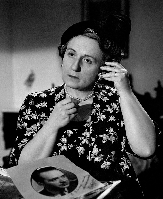 Italian actress Titina De Filippo (Annunziata De Filippo) listening to a ticking clock in the film Cani e gatti (Italy, 1952).